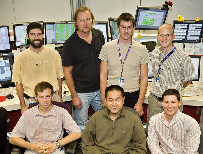 D0 Silicon Microstrip Tracker team of experts as of August 2006. Back row, from left: Michele Weber, Mike Utes, Kristian Harder, Derek Strom. Front row, from left: Dmitri Tsybychev, Kazu Hanagaki, Marco Carrasco. Not pictured: Michael Kirby, group leader.